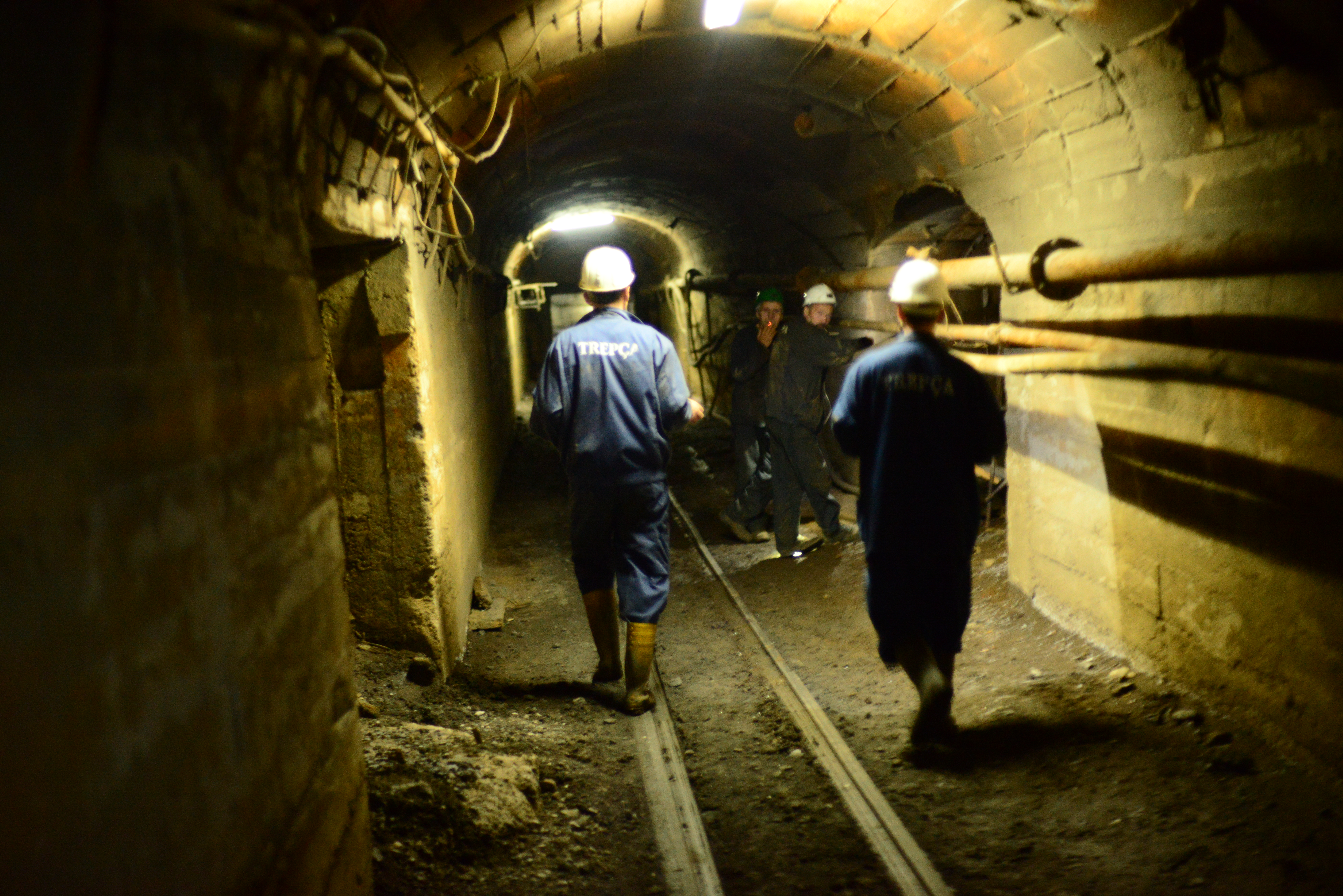 in the tunels of the Trepca Mine